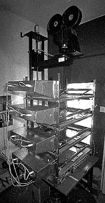 Photo by J-E Nyström 1972. A multiplane camera built by an animation hobbyist. 10:05, 29 June 2005 Janke 208x400 (28349 bytes) (Photo by J-E Nyström 1972. I hereby place this low-resolution photo into the public domain. I retain the copyright to all larger versions.)